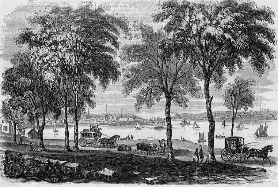 View of New London, Connecticut, from the Shore Road, an engraving published November 1854 in Gleason's Pictorial Drawing-Room Companion, Boston, Massachusetts